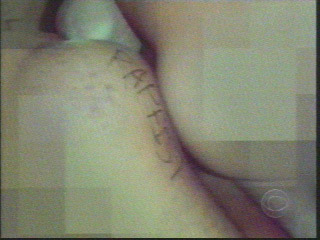 Abu Ghraib 52. U.S. Army / Criminal Investigation Command (CID).Seized by the U.S. Government.